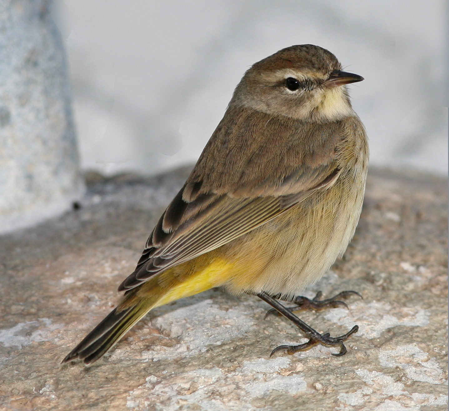 Palm Warbler (western subspecies) in the Florida Keys.